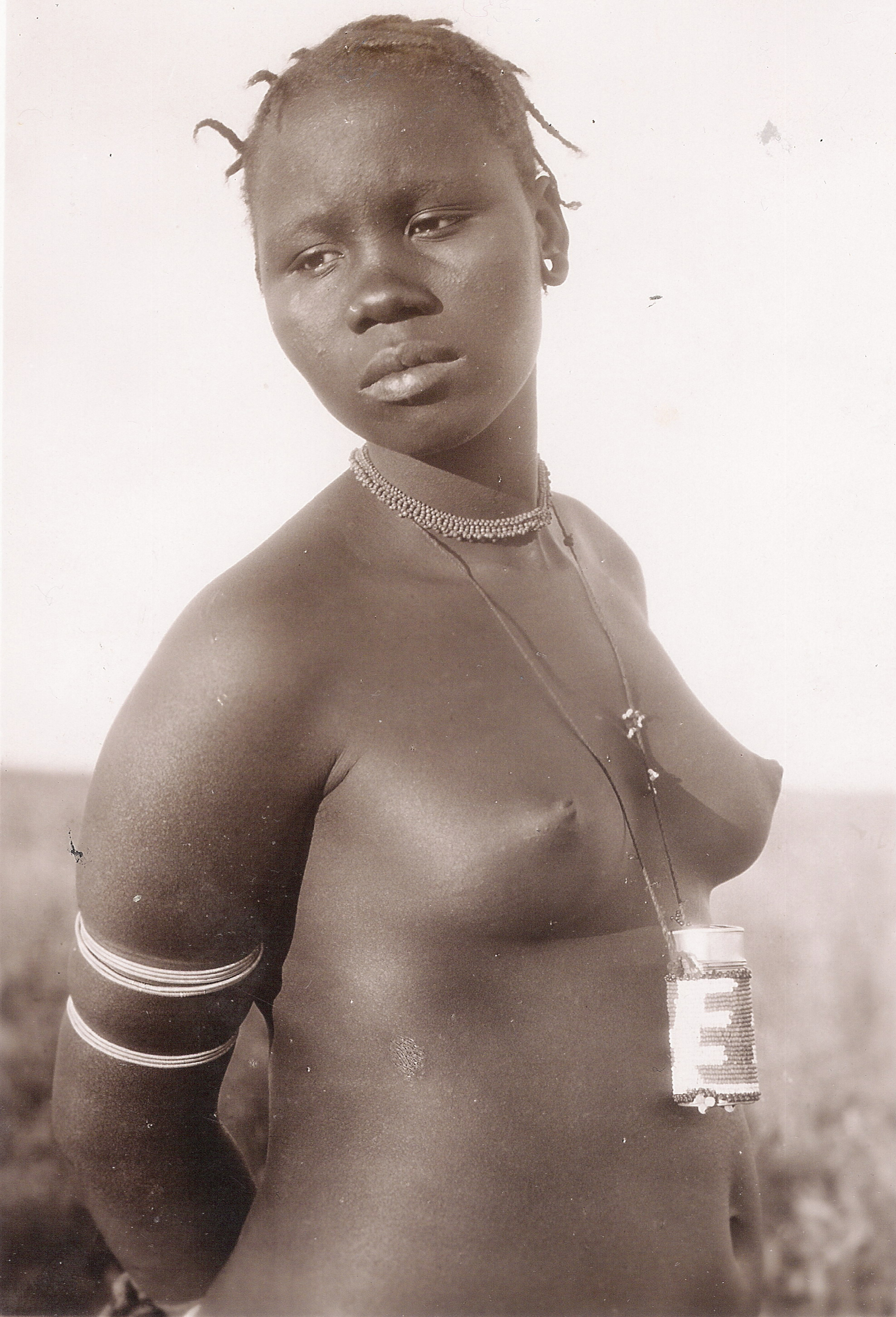 Black woman slave. Italian photo postcard 1937 "Costumi Africani (southern Cyrenaica)".